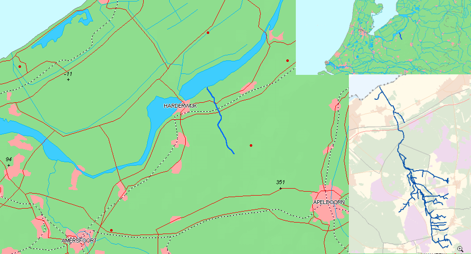 Description: Location of a waterway (river/canal) in the Netherlands Author: edited by CdZ Source: based on image image:MapNetherlandsWater.PNG